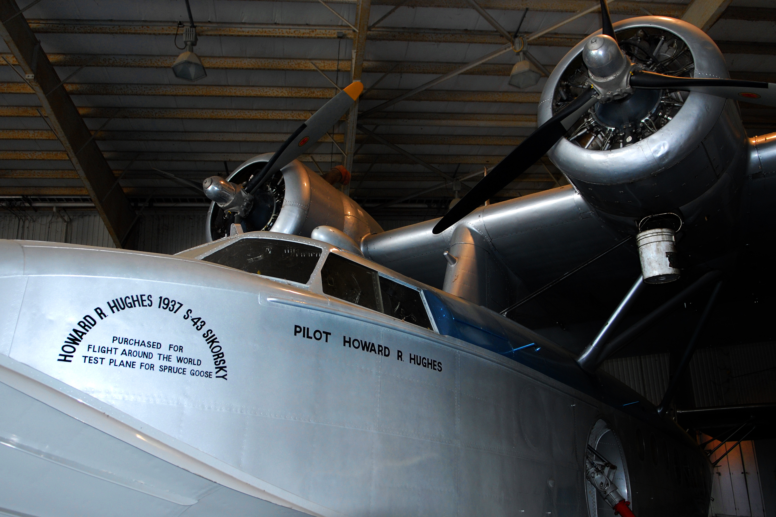 Howard Hughes' Spruce Goose test plane, the S-43 Sikorsky, at Brazoria County Airport, Texas.